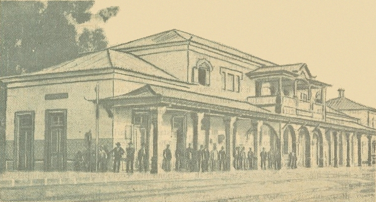 Marvão Beirã Railway Station, in the Cáceres Branch Line, in Portugal. This image shows the station building after the expansion works, finished in 1926. The image was changed from the original, in order to remove the letters from the following page, which leaked to the background. This image was originally published in the Gazeta dos Caminhos de Ferro No. 928, of the 16th August 1926, and scanned by the Hemeroteca Municipal de Lisboa.